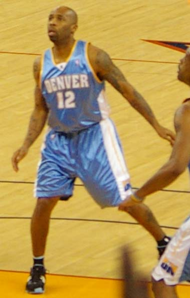 This file has been extracted from another file: LiveDie By the 3.jpg